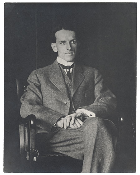 Elmer L. Mac Rae, ca. 1893. Unidentified photographer. From the 1913 Armory Show, 50th anniversary exhibition records, Archives of American Art, Smithsonian Institution.